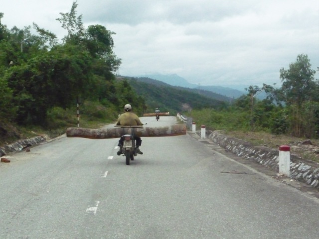 Illegal loggers in the central Vietnam.